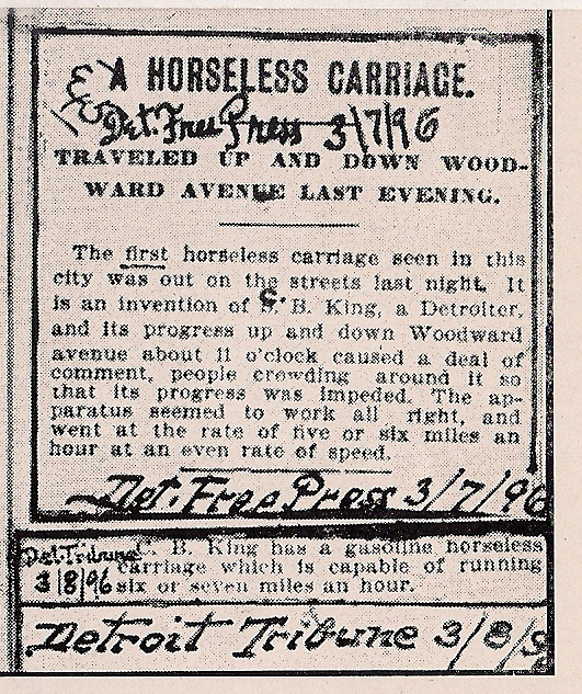 \Detroit Free Press 3-7-1896 article